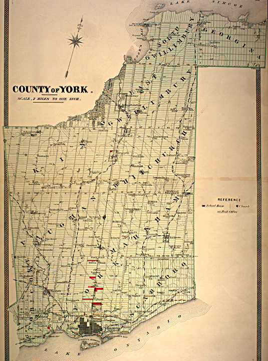 York County, Ontario ~1878